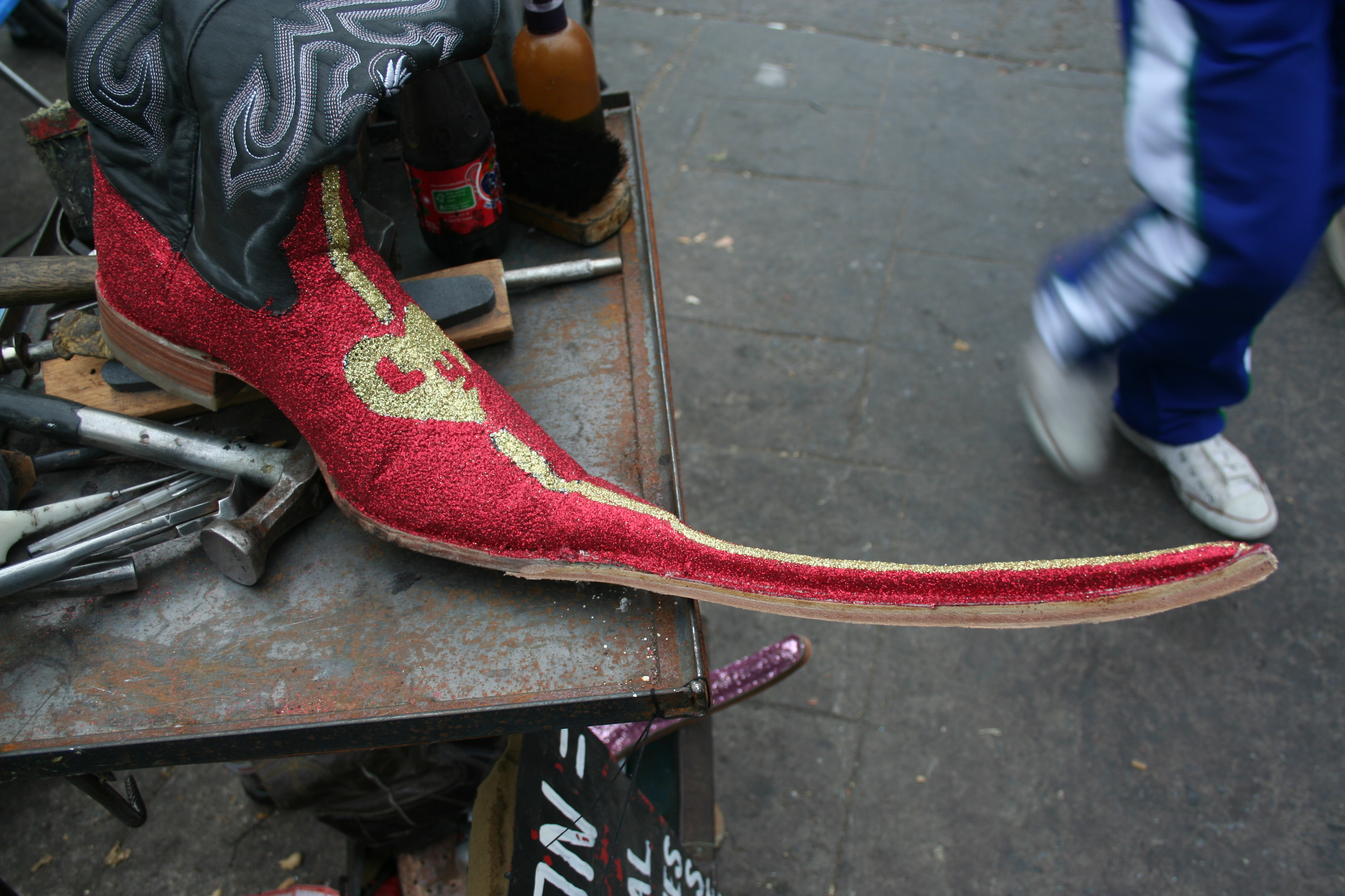 En el puente de la avenida Reforma, frente al mercado República. SLP Mexican pointy boots (Spanish: Botas picudas mexicanas) are a style of boots made with elongated toes that are popular footwear for men in parts of Mexico as well as in the United States.